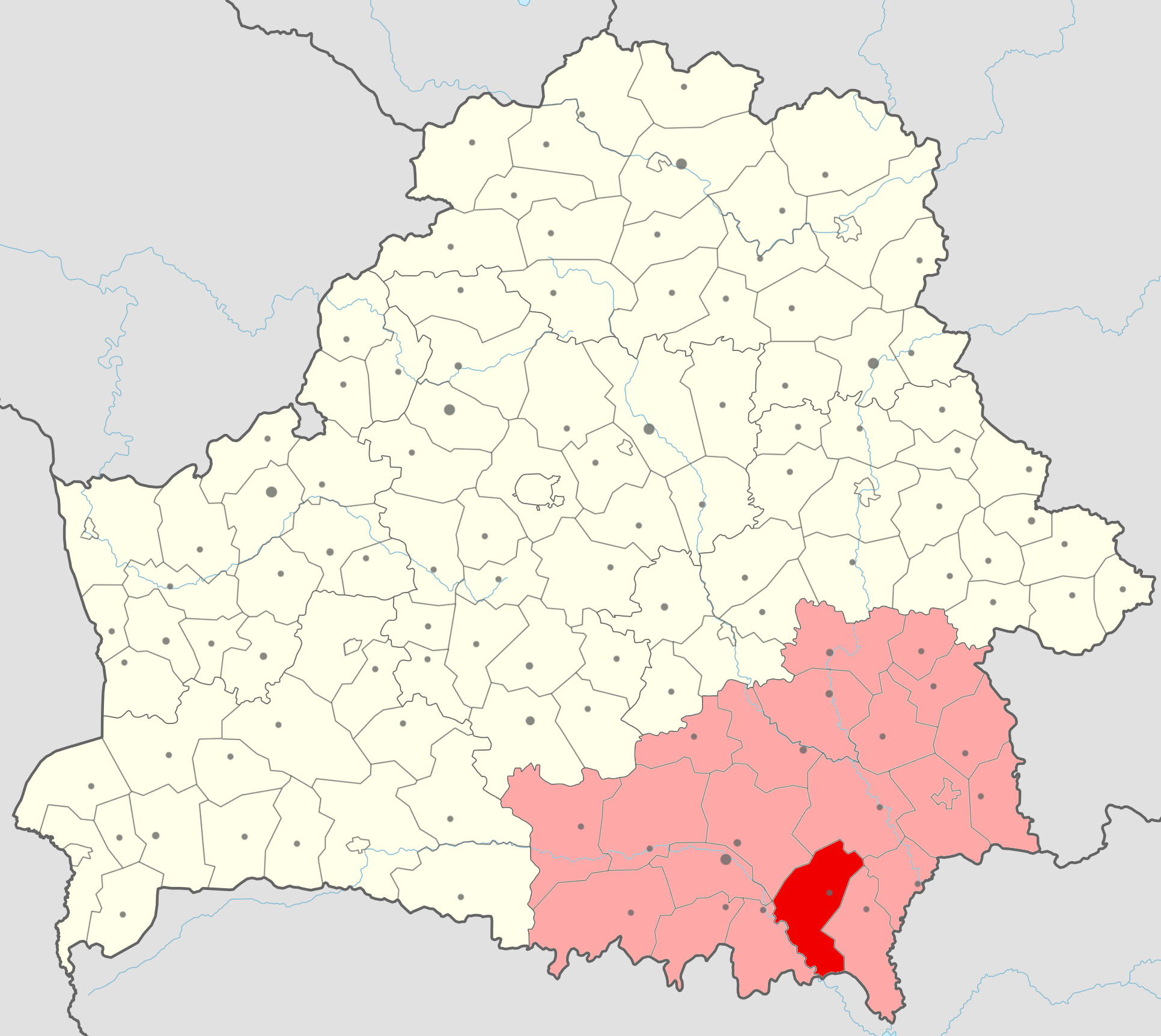 Location of Chojnicki rajon (red) in Homieĺskaja voblasć (light red) in Belarus.